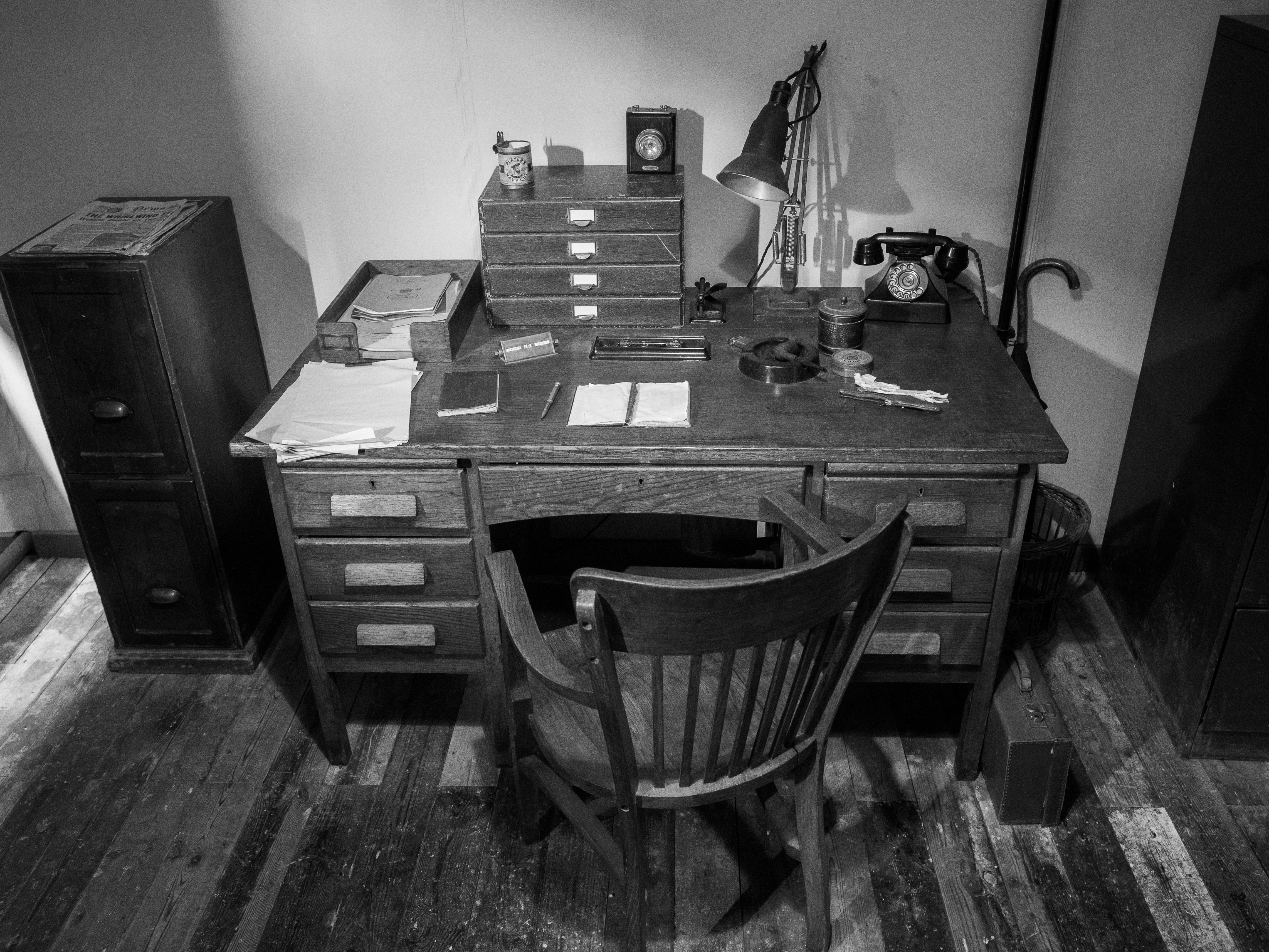 Bletchley Park, Bletchley, Milton Keynes, Buckinghamshire, England